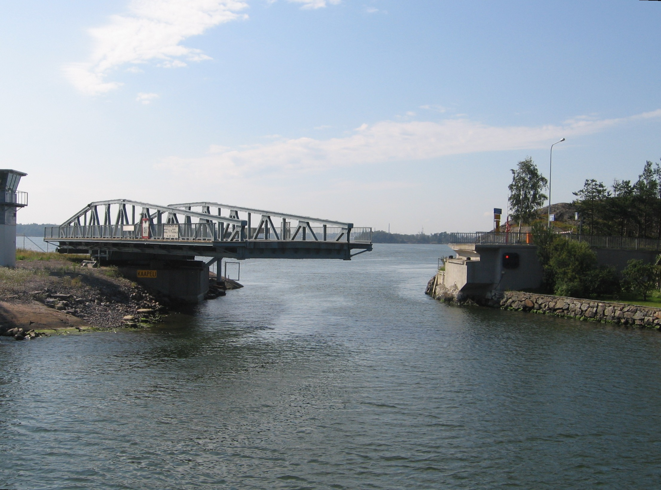 The swing bridge over Hevossalmi strait in Helsinki, Finland is turning to let the water traffic go through